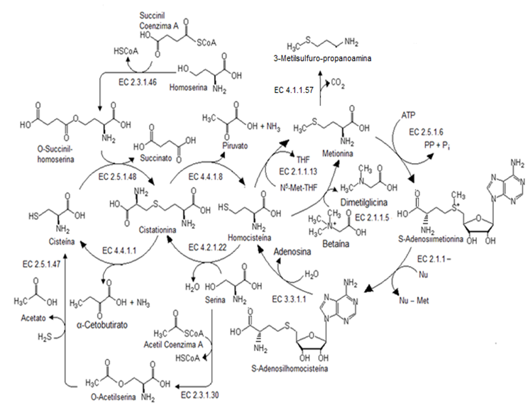 Methionine metabolism